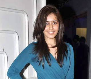 Actress Rashi Khanna at the screening of "Madras Cafe" Cropped from the original